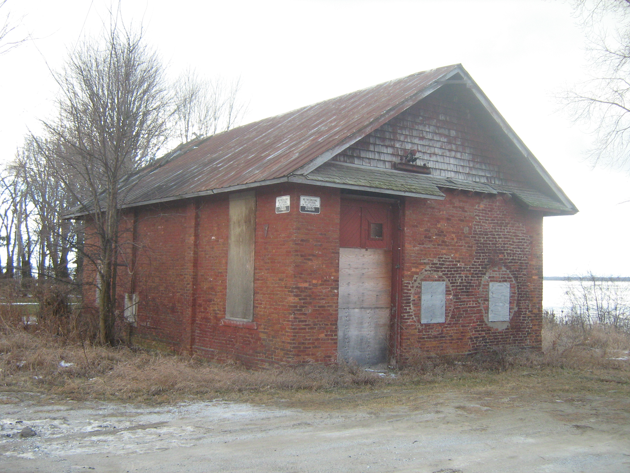 Rutland Railroad pumping station, Alburgh, Vermont. Presumably for purpose of load water onto steam engines.